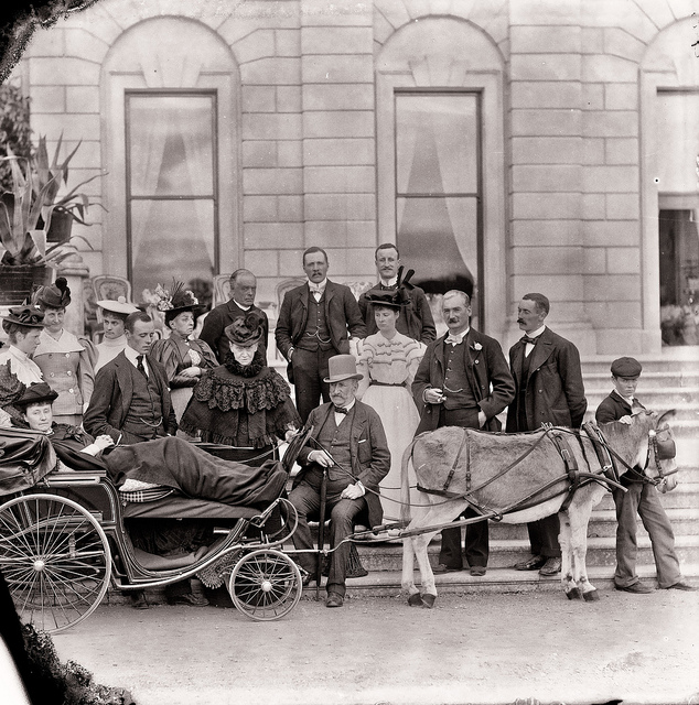 This photo was apparently taken at the Coming of Age celebrations for the 6th Marquess of Waterford. He is shown standing behind is invalid mother, the dowager Marchioness of Waterford and next to his grandparents, The Duke and Duchess of Beaufort. Date: September 1896. NLI Ref.: =